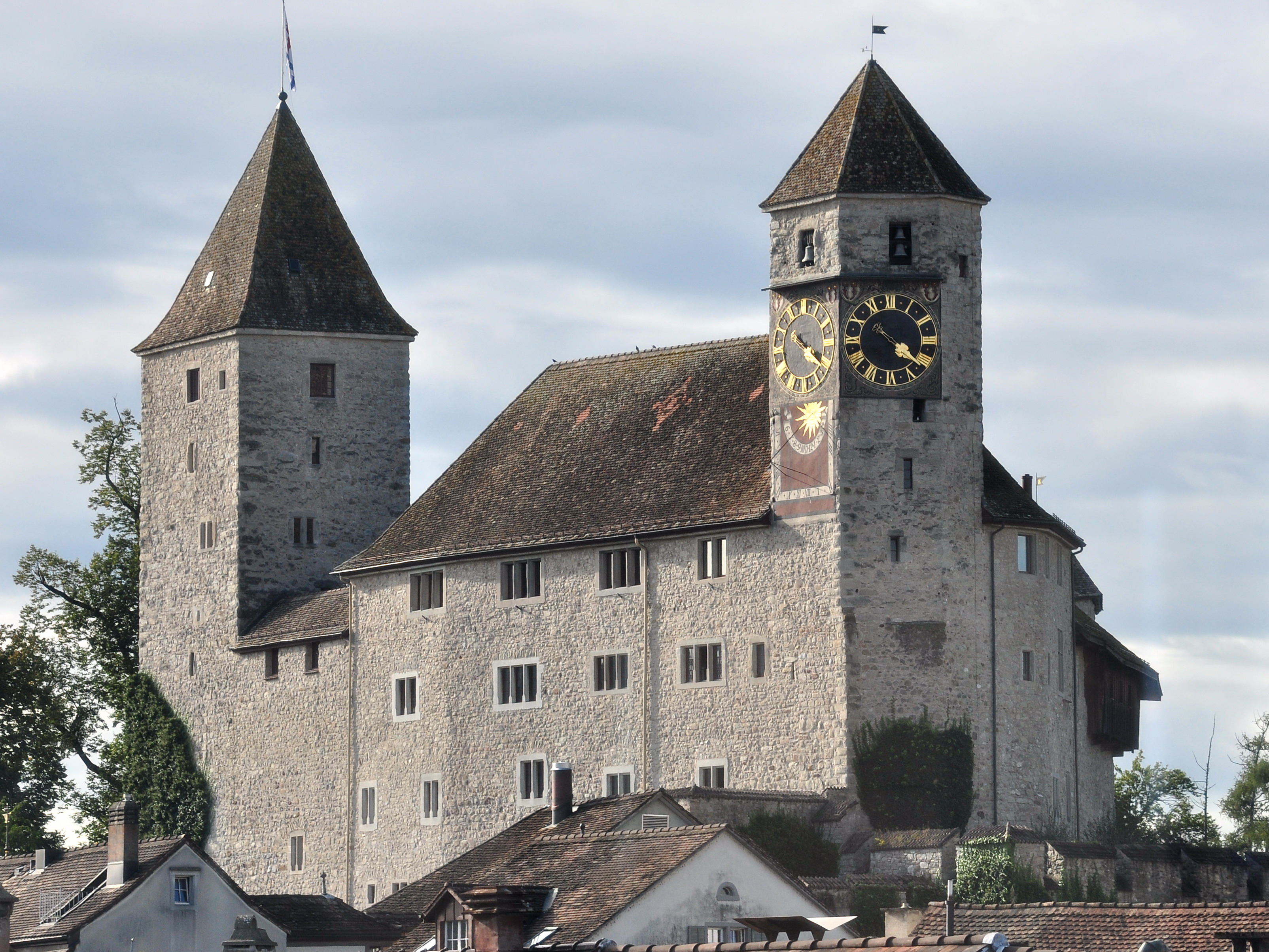 Schloss in Rapperswil (Switzerland) as seen from Manor shopping mall situated at Neue Jonastrasse